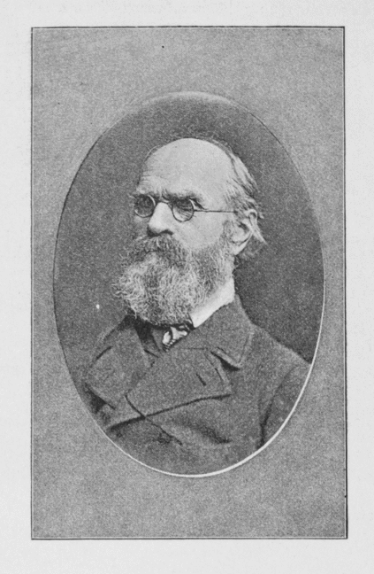 Portrait of Jan Nevole (1812-1903), Czech architect, later farmer, active in patriotic circles.